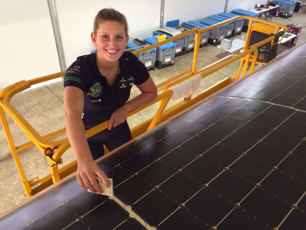 Paige Kassalen working on wing of Solar Impulse 2 in Seville, Spain.